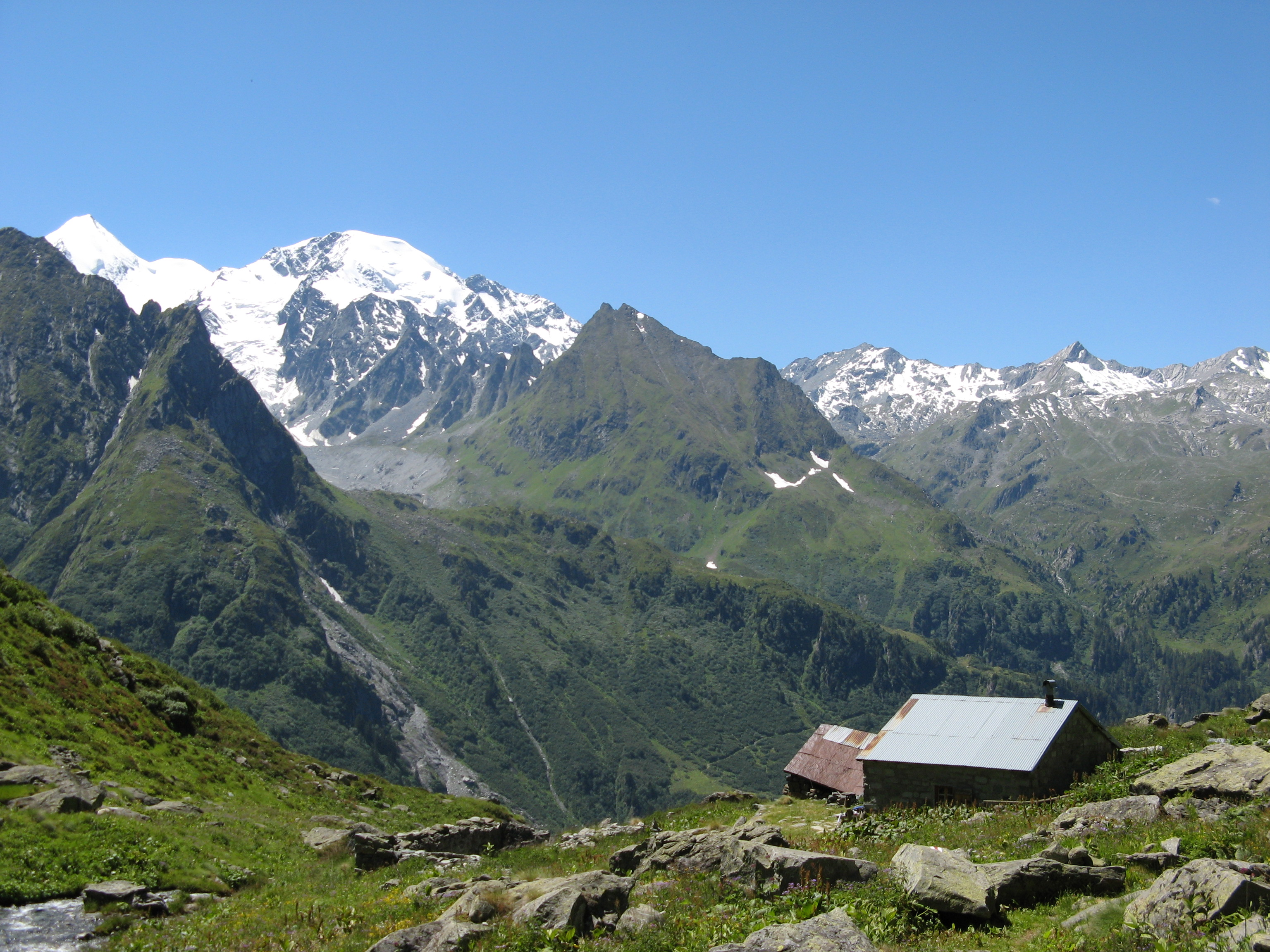 Sovereu, in Bagnes, Valais, Switzerland.